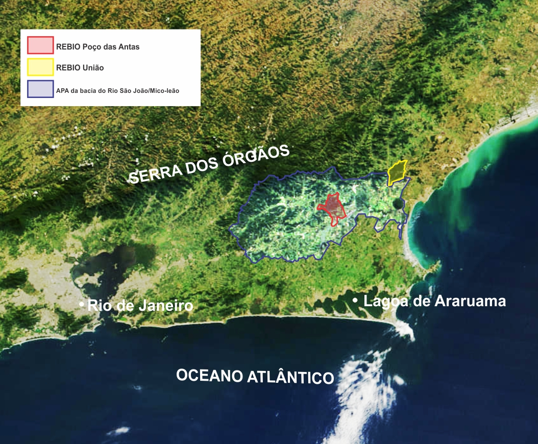 Conservation units of golden lion tamarin, Rio de Janeiro state, Brazil: Blue line: São João Basin Environmental Protection Area (category V (IUCN) - Protected Landscape/Seascape) Red line: Poço das Antas Biological Reserve (category Ia (IUCN) - Strict Nature Reserve) Yellow line: União Biological Reserve (category Ia (IUCN) - Strict Nature Reserve) The conservation units limits were delineated by Miguelrangeljr, using Corel Draw X6, based on the Associação Mico-Leão-Dourado. São João basin is the most important region for the golden lion tamarin conservation.